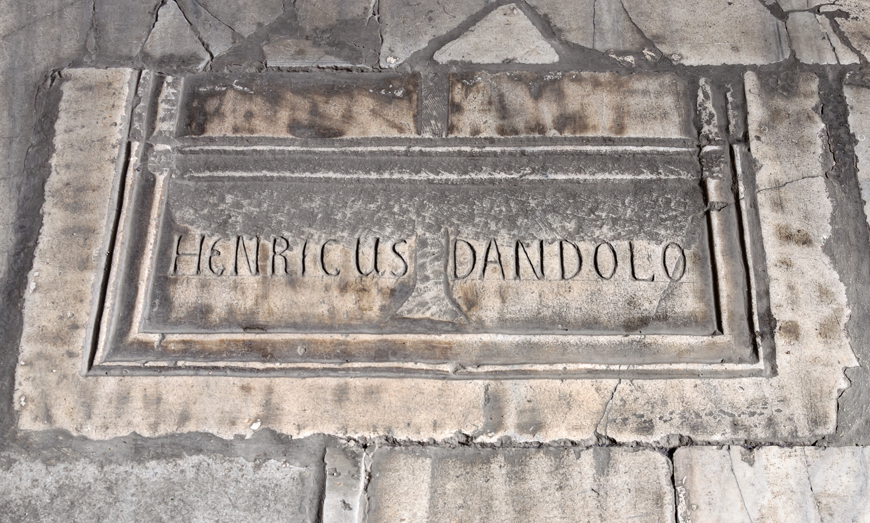 Grave marker of Enrico Dandolo in Hagia Sophia (Istanbul, Turkey)